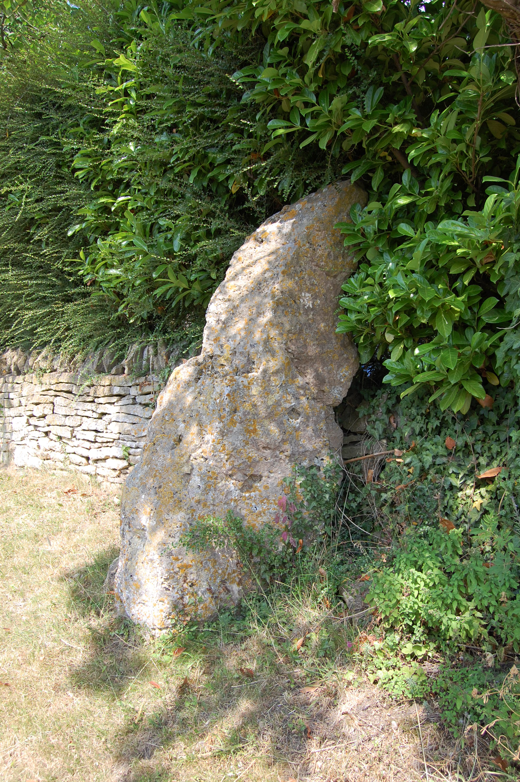 The "Thorstone" at Taston, Oxfordshire, UK.